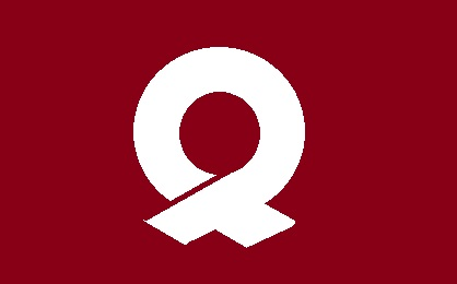 Flag of Sukumo Kochi